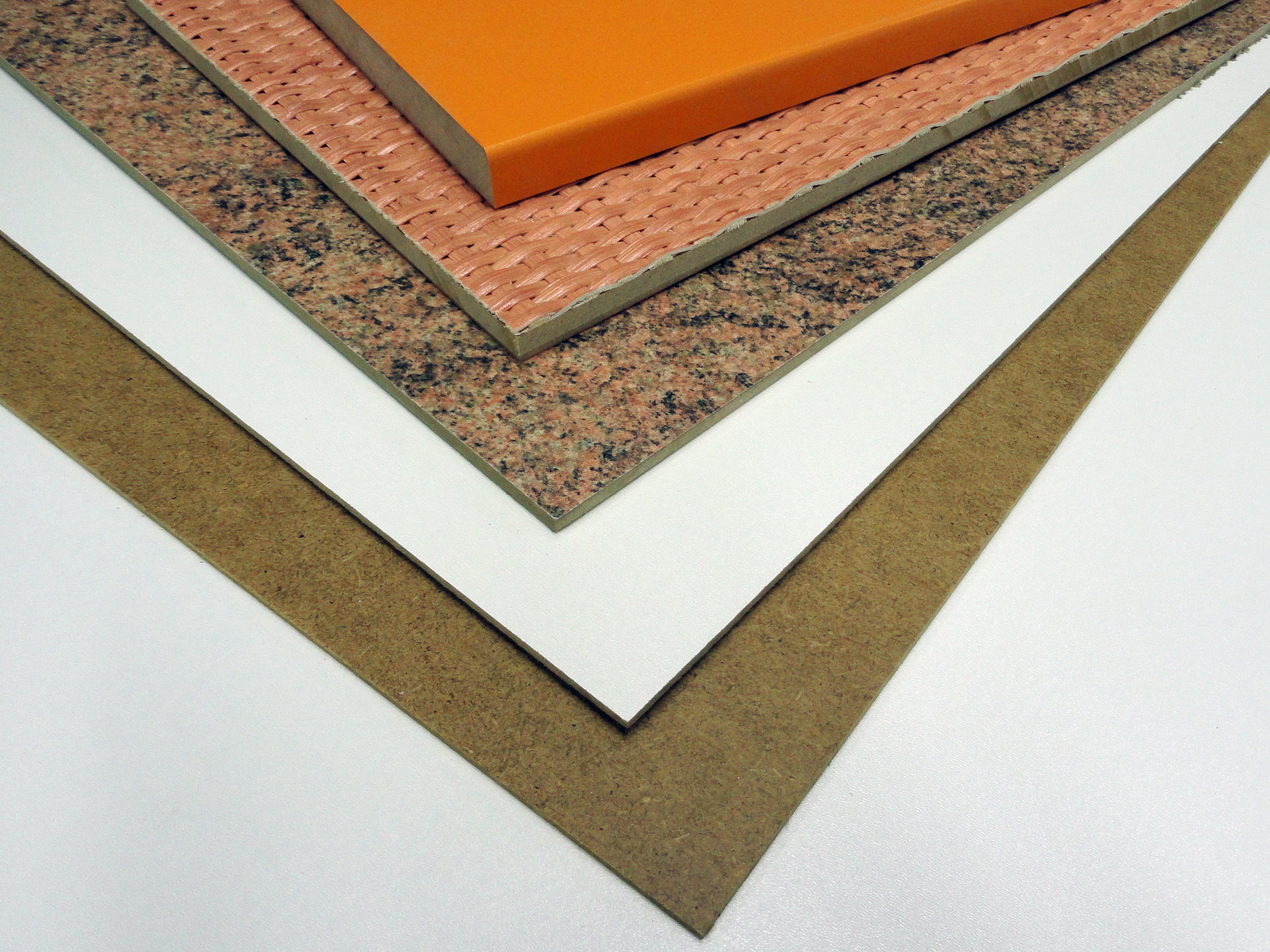 Fibreboard